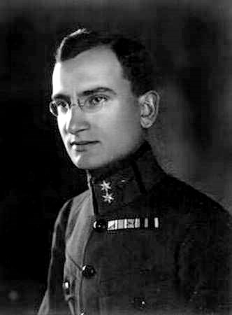 Herman Potočnik (1892-1929) photo